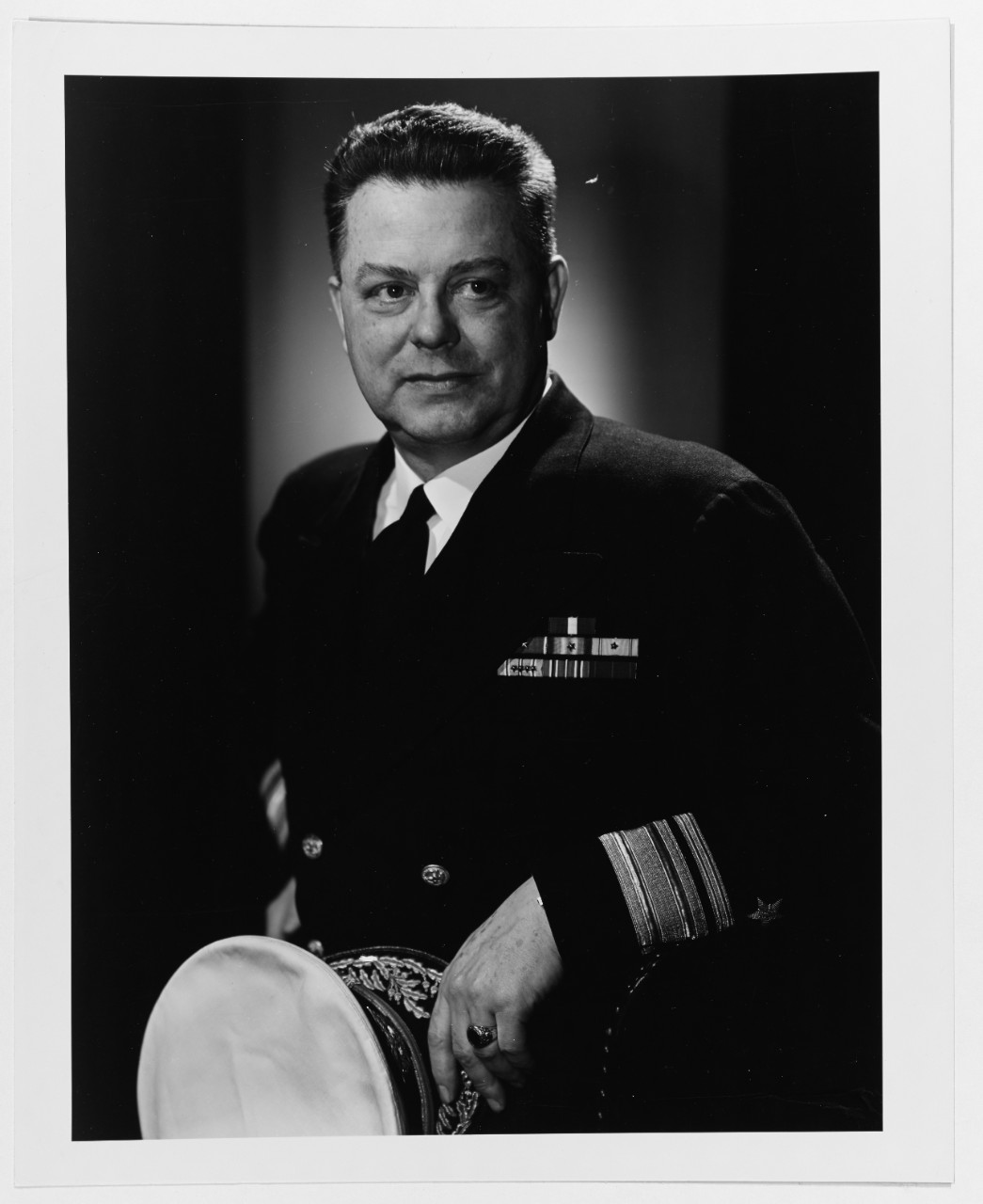 Willard Augustus Kitts III (April 14, 1894 - November 21, 1964) was a highly decorated officer in the United States Navy with the rank of Vice Admiral. An ordnance expert and veteran of several campaigns in Pacific Theater during World War II, he distinguished himself as Commanding officer of heavy cruiser USS Northampton, which was sunk during the Battle of Tassafaronga in November 1942.